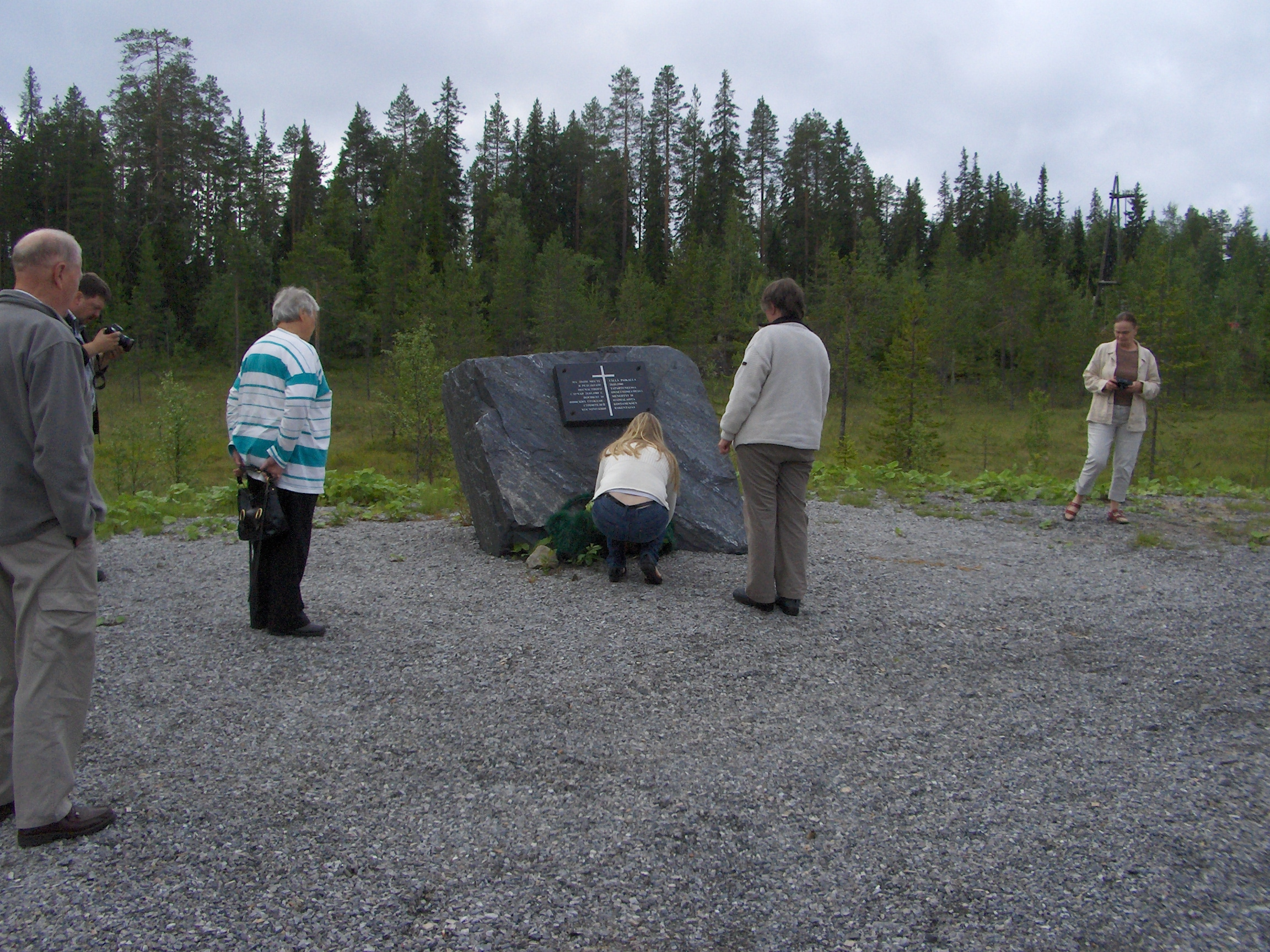 Putting flowers 10. June 2009 on the memory stone of bus accident Kostomuksha, happened 20. May 1980